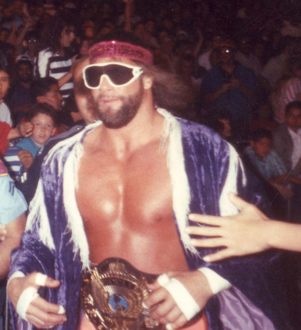 Professional wrestler Randy "Macho Man" Savage, wearing the WWF Championship, running to the ring.